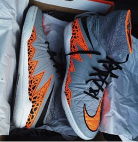 A pair of HypervenomX Proximo with dynamic fit collar and flywire